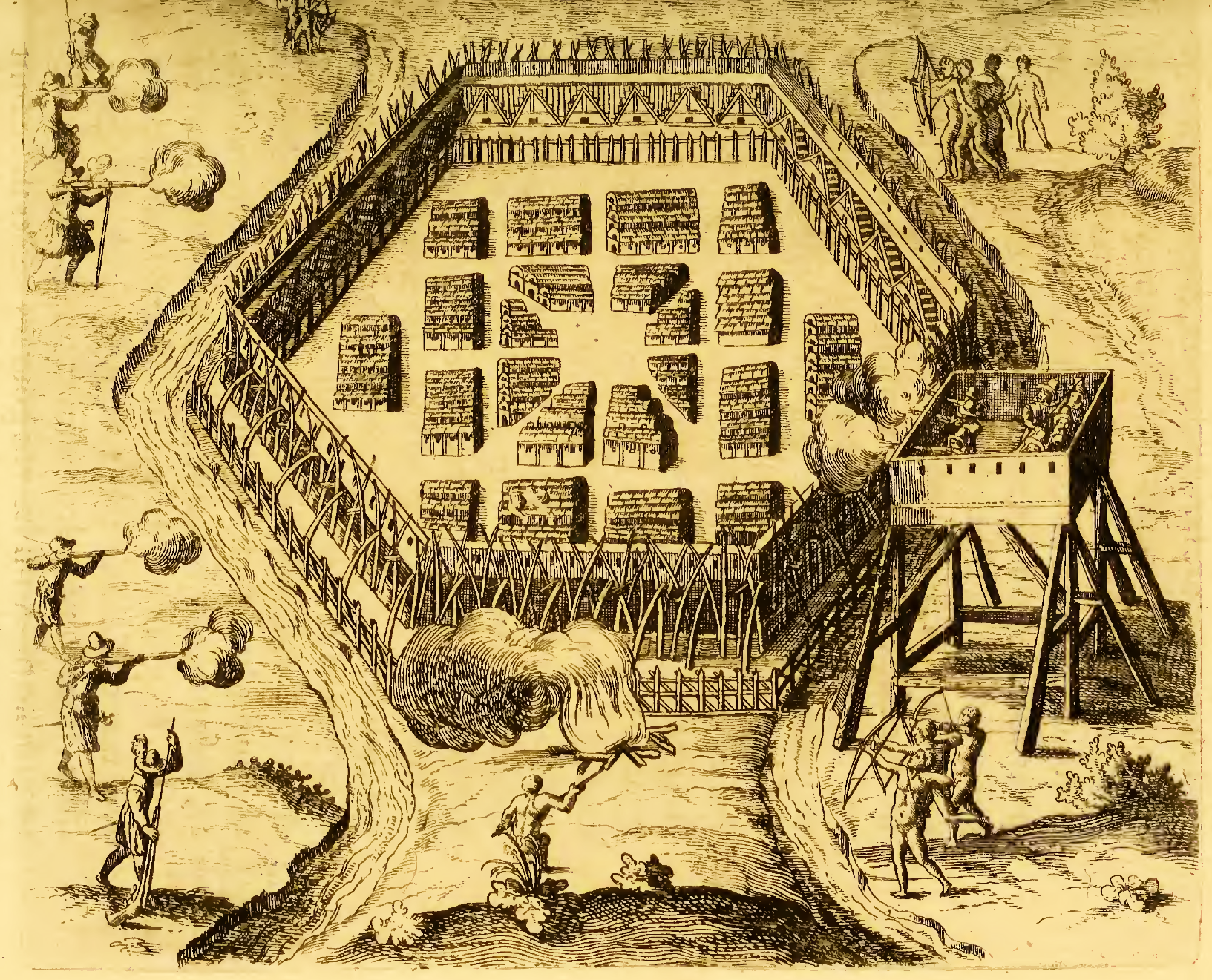 An Iroquois Fort. The description and credit reads: Believed to have stood on the shore of Onondaga Lake and besieged by Champlain in 1615. From Vol. III of "The Documentary History of the State of New York." The original in Champlain's "Voyages" Paris, 1619.